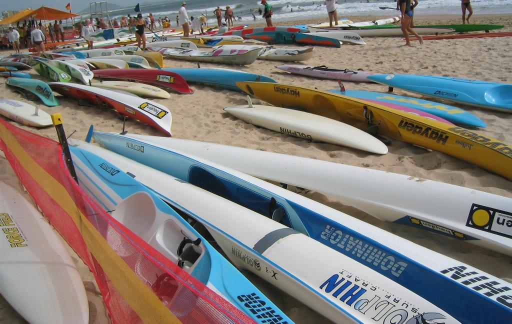 Surf Ski Carnival - Alexandra Headlands Surf Life Saving Club Queensland Australia